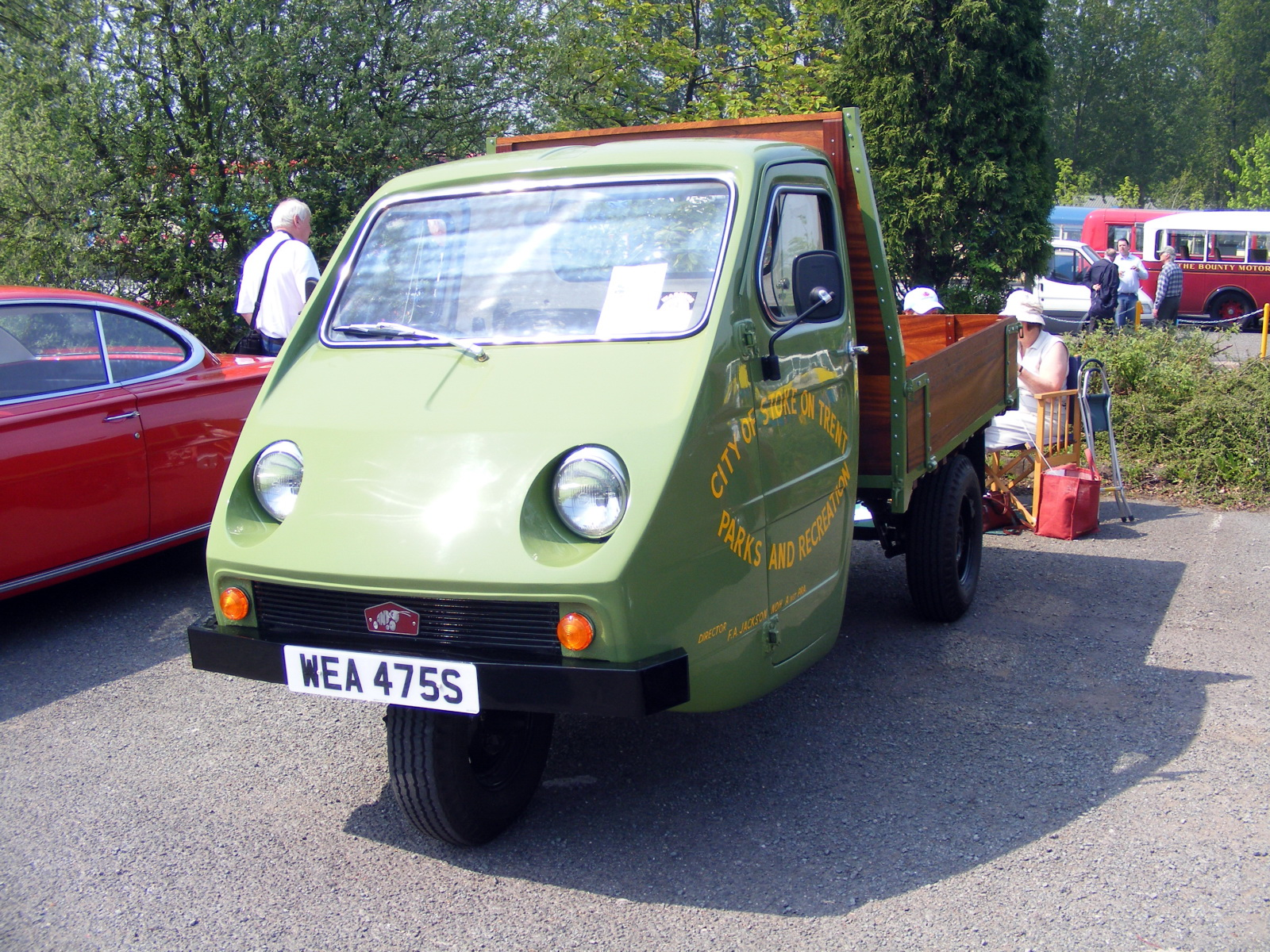 As well as the famous Reliant Robin, they also produced goods vehicles such as the Ant.